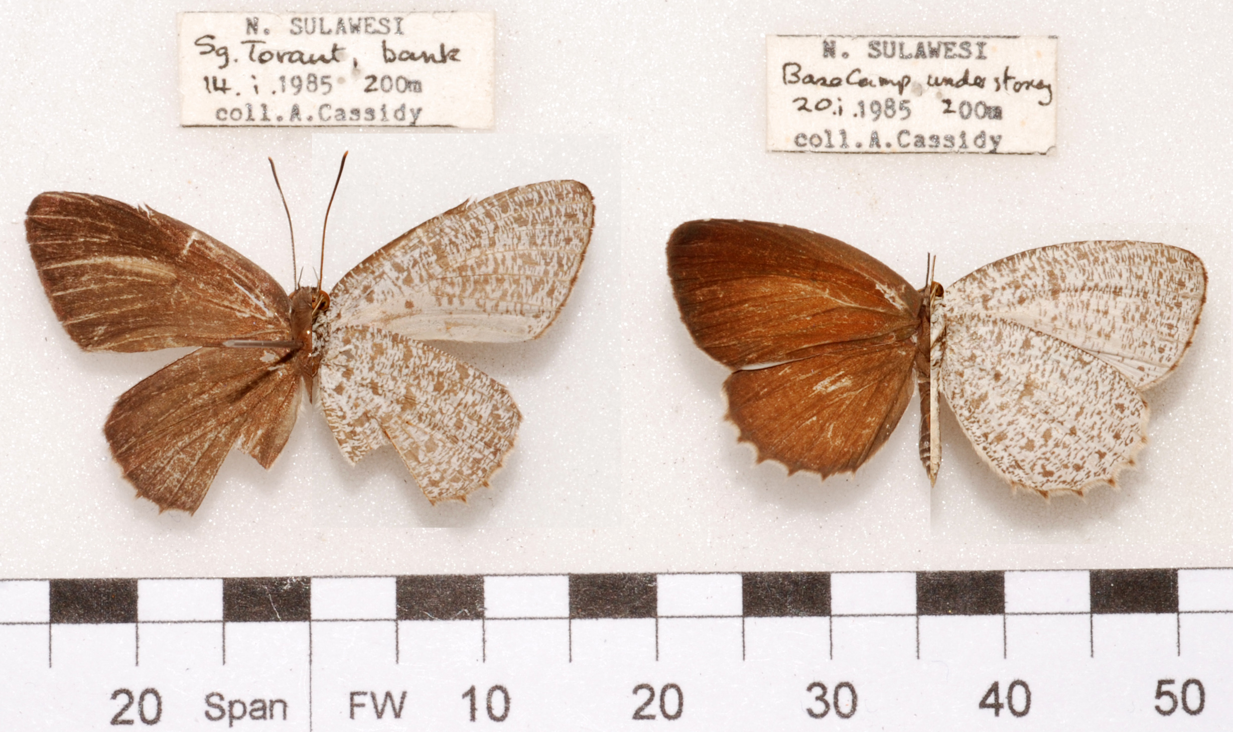 Allotinus (Paragerydus) unicolor zitema, male, female, set specimens, Sulawesi, Project Wallace material, Alan Cassidy photo.